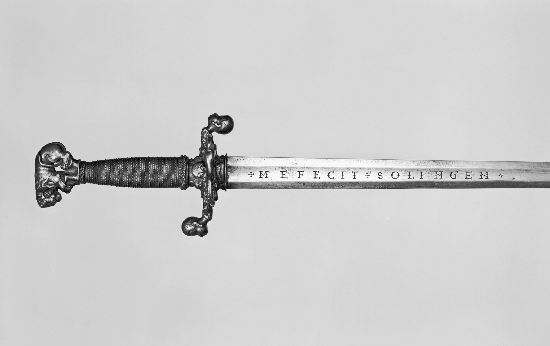 This hilt is remarkable for its figural motifs: the pommel is chiseled as a lion, the quillons as Africans' heads, and the finger guard with a mythical unicorn attacked by a hound. Combined, these symbolize the ferocity of a noble warrior who uses his weapon in a pure cause though beset by adversity. The hilt is attributed to Gottfried Leygebe by comparison with ones that are signed. It may replace an earlier one that was damaged. The blade is signed MEVES BERNS on one side and, on the other side, ME FECIT SOLINGEN ("Meves Berns of Solingen made me").